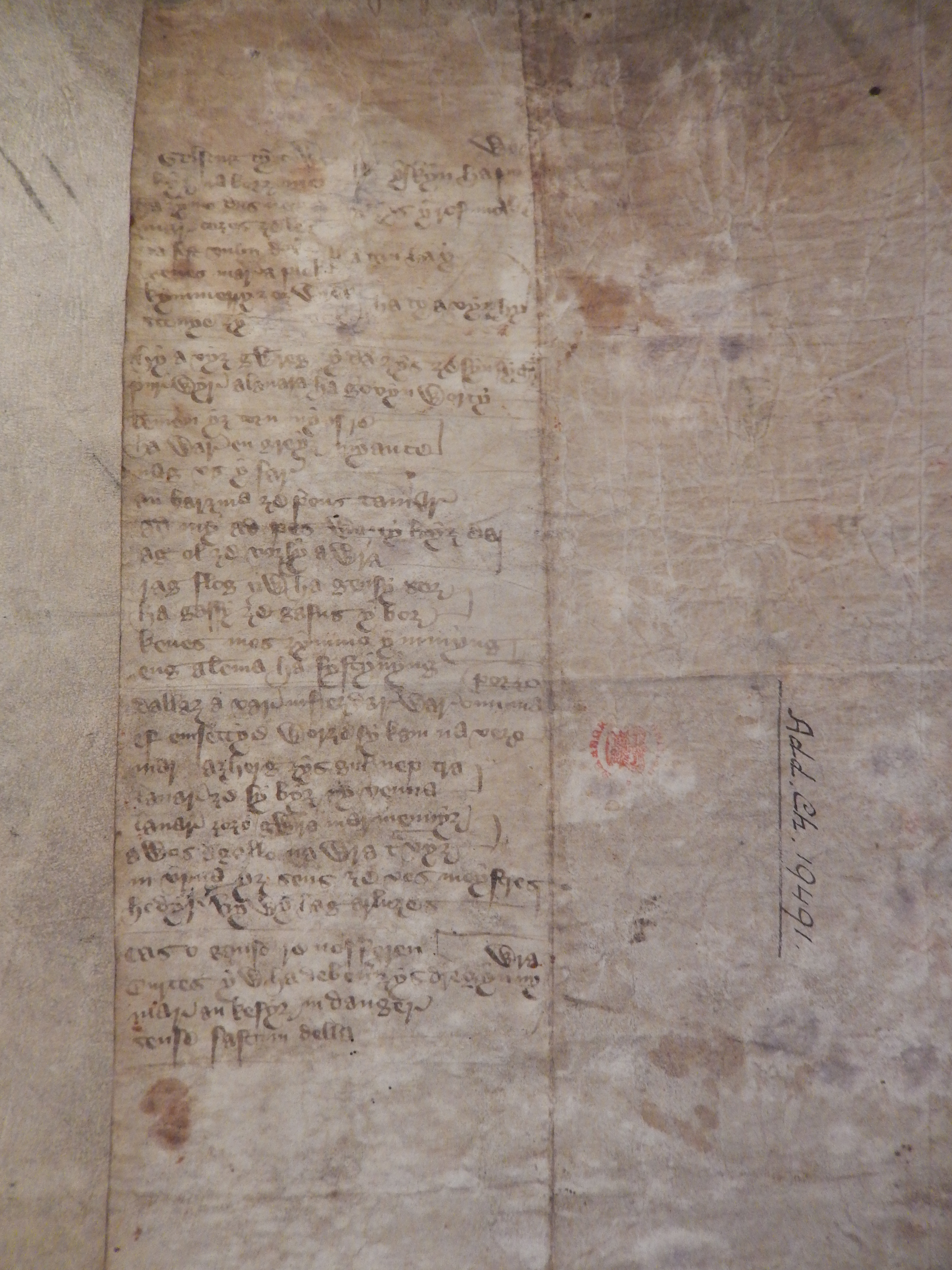 Middle Cornish verse fragment dating to the late 14th century, written on the back of a charter held at the British Library (Add. Ch. 19491). This Cornish verse fragment is known as the "Charter Fragment", and is the earliest extant example of a Cornish language manuscript.